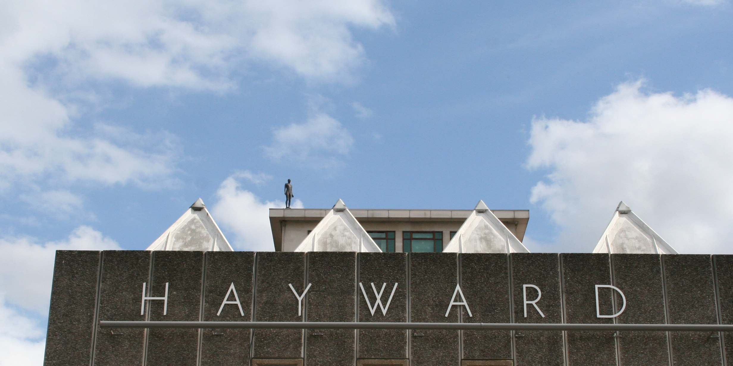 Antony Gormley Skyline Figures2